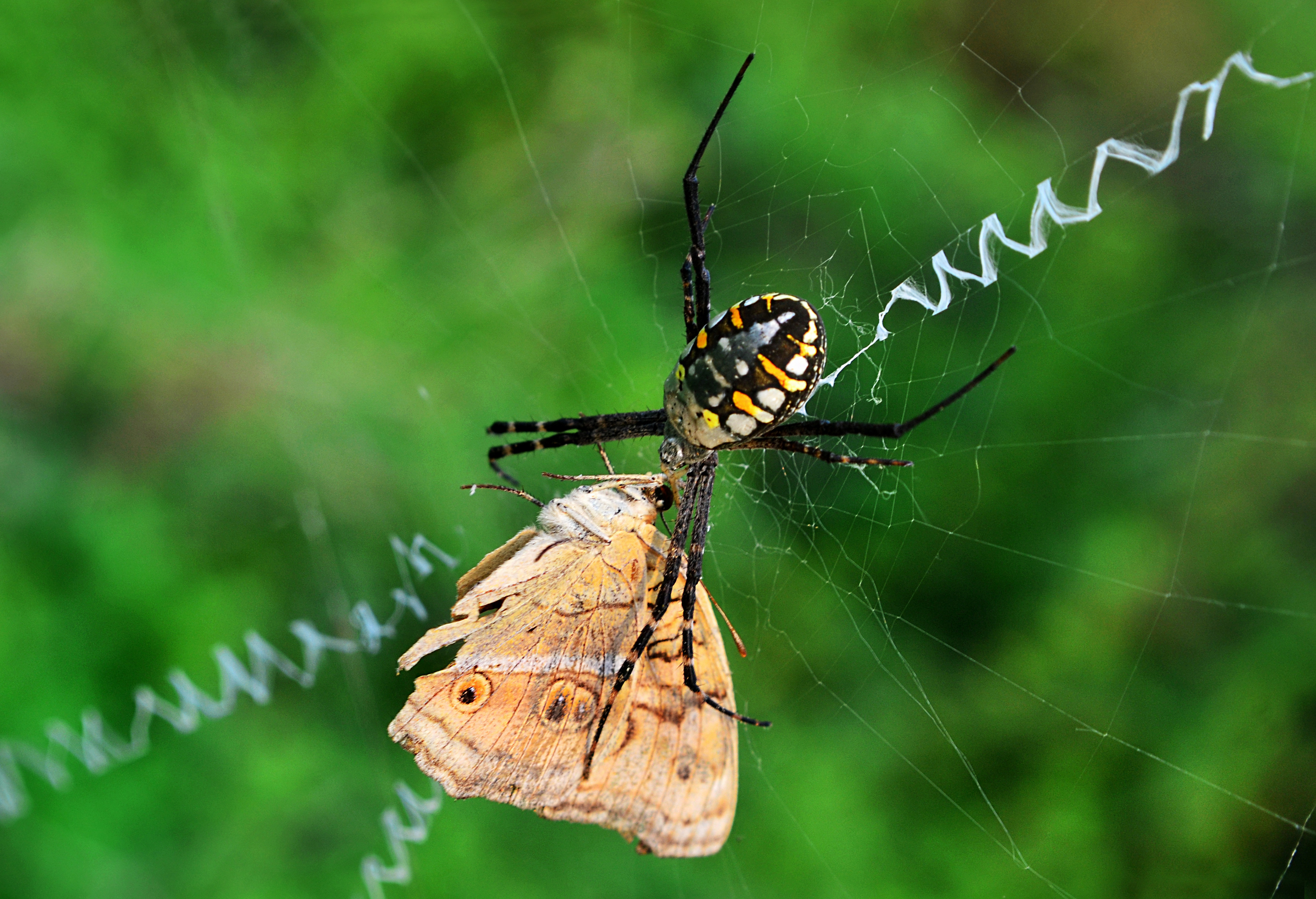 A SPIDER HAS KILLED A BUTTERFLY ON IT'S WEB.